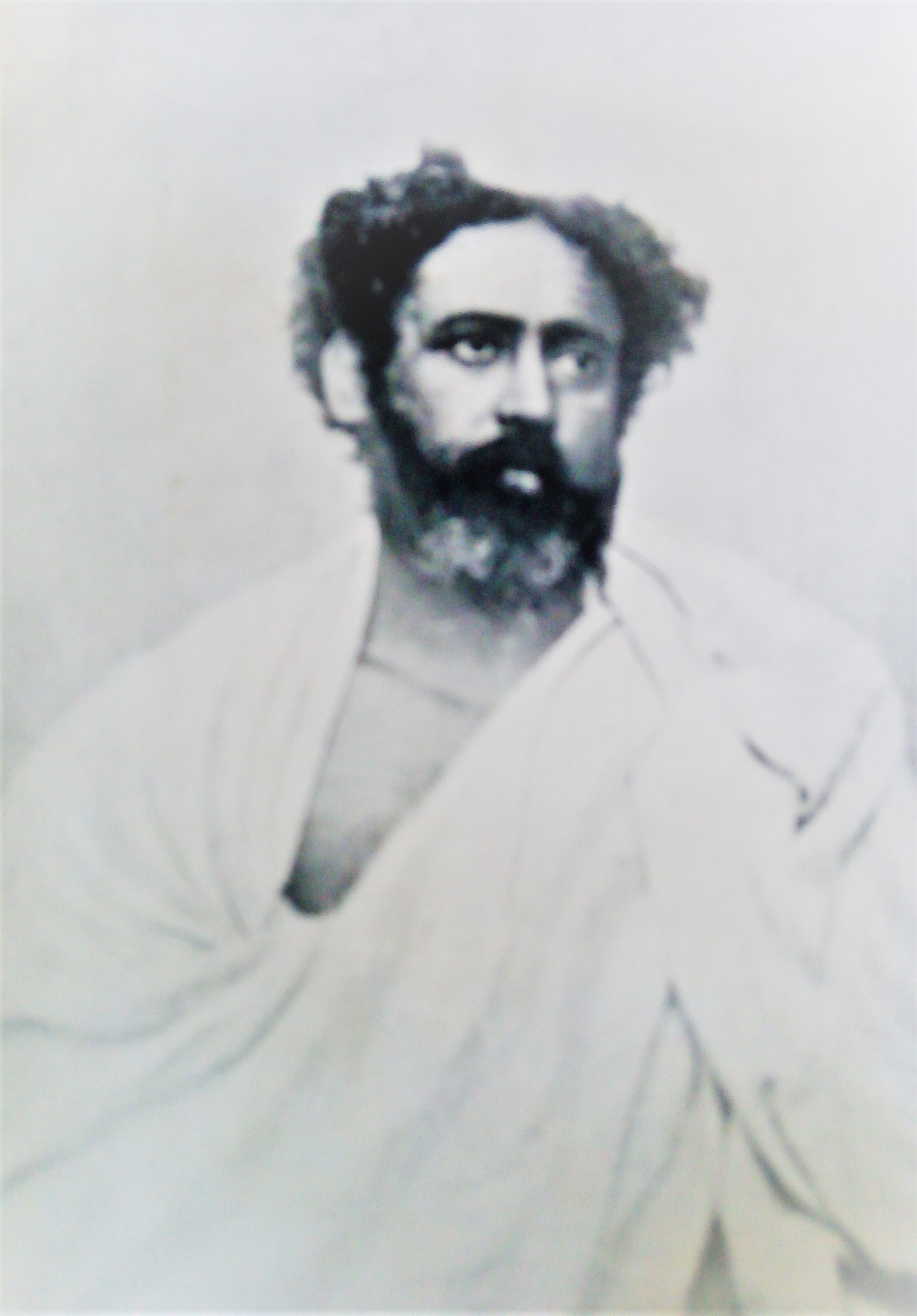 Soham Swami in 1905.He was a disciple of Tibbetibaba, a great Indian yogi.